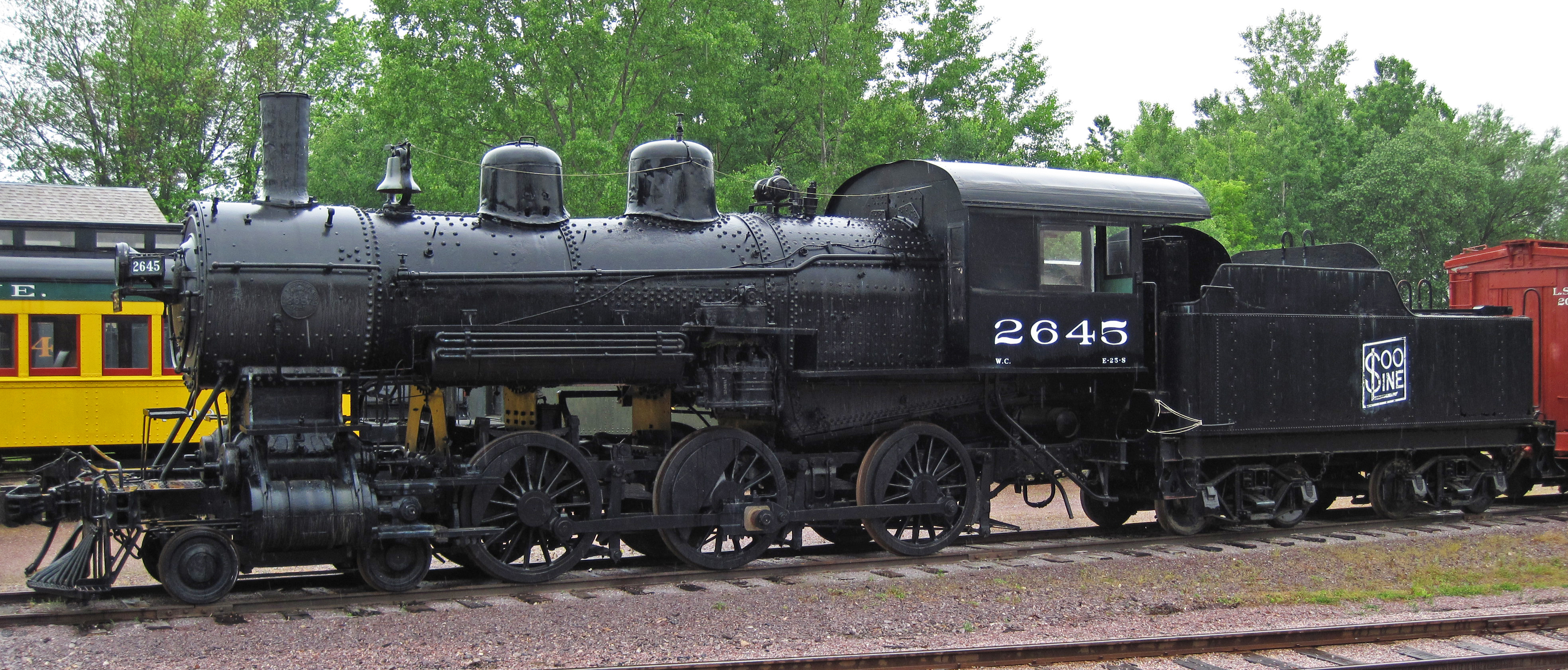 This E-25-S 4-6-0 steam locomotive was built in 1900 by Brooks Locomotive Works for use as a freight engine by the Wisconsin Central Railway. In 1909, it became a Soo Line engine. The locomotive was retired in the 1950s. It is now part of the Mid-Continent Railway Museum collection in the town of North Freedom, Wisconsin. The railroad ballast on the ground is crushed Baraboo Quartzite, which is ~1.7 billion years old (Paleoproterozoic). It comes from a nearby quarry in the Baraboo Ranges of southern Wisconsin. More info.